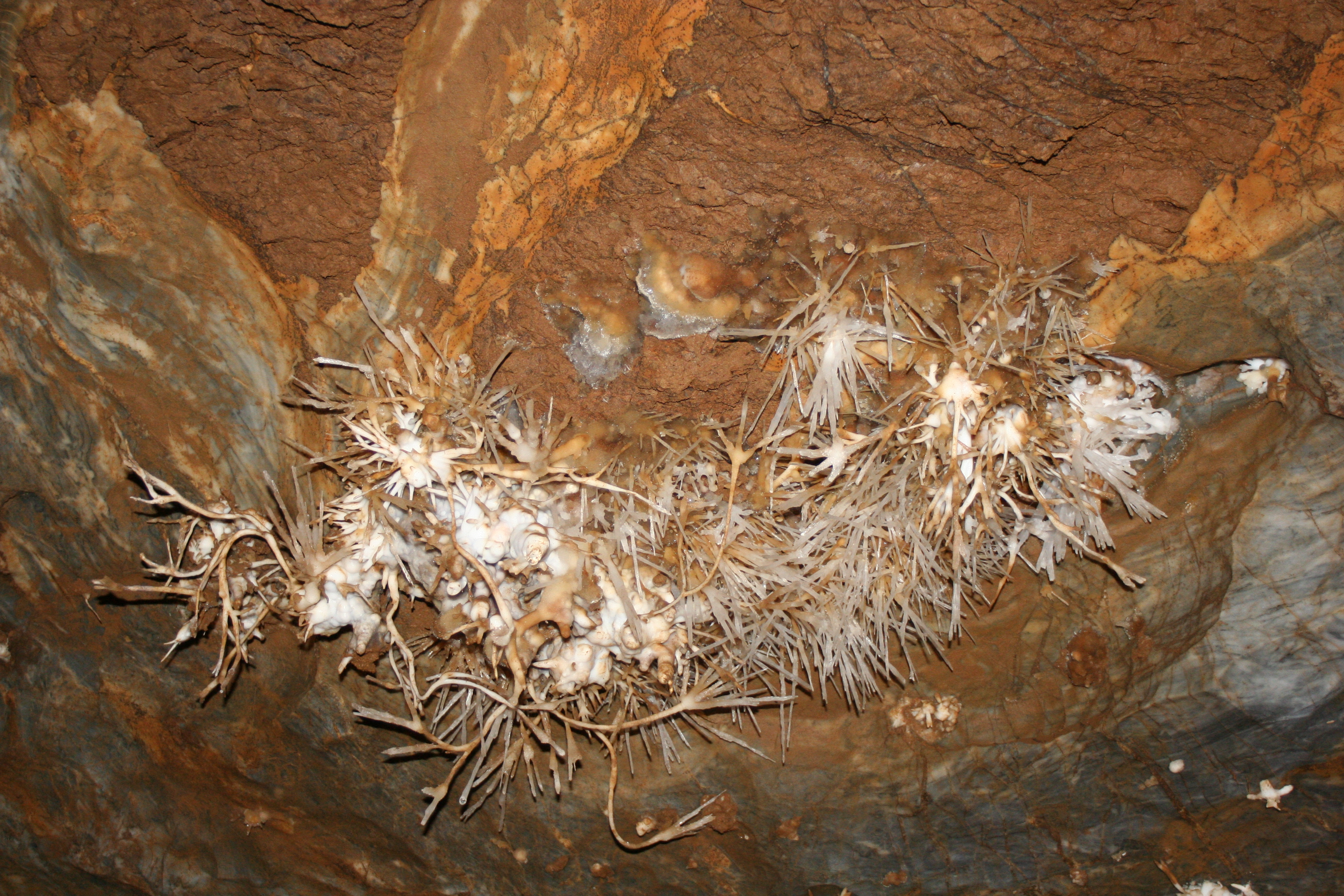 Ochtiná Aragonite Cave (Ochtinská aragonitová jaskyňa), Slovakia. Taking this photo was made possible through the financial support of Wikimedia Polska.